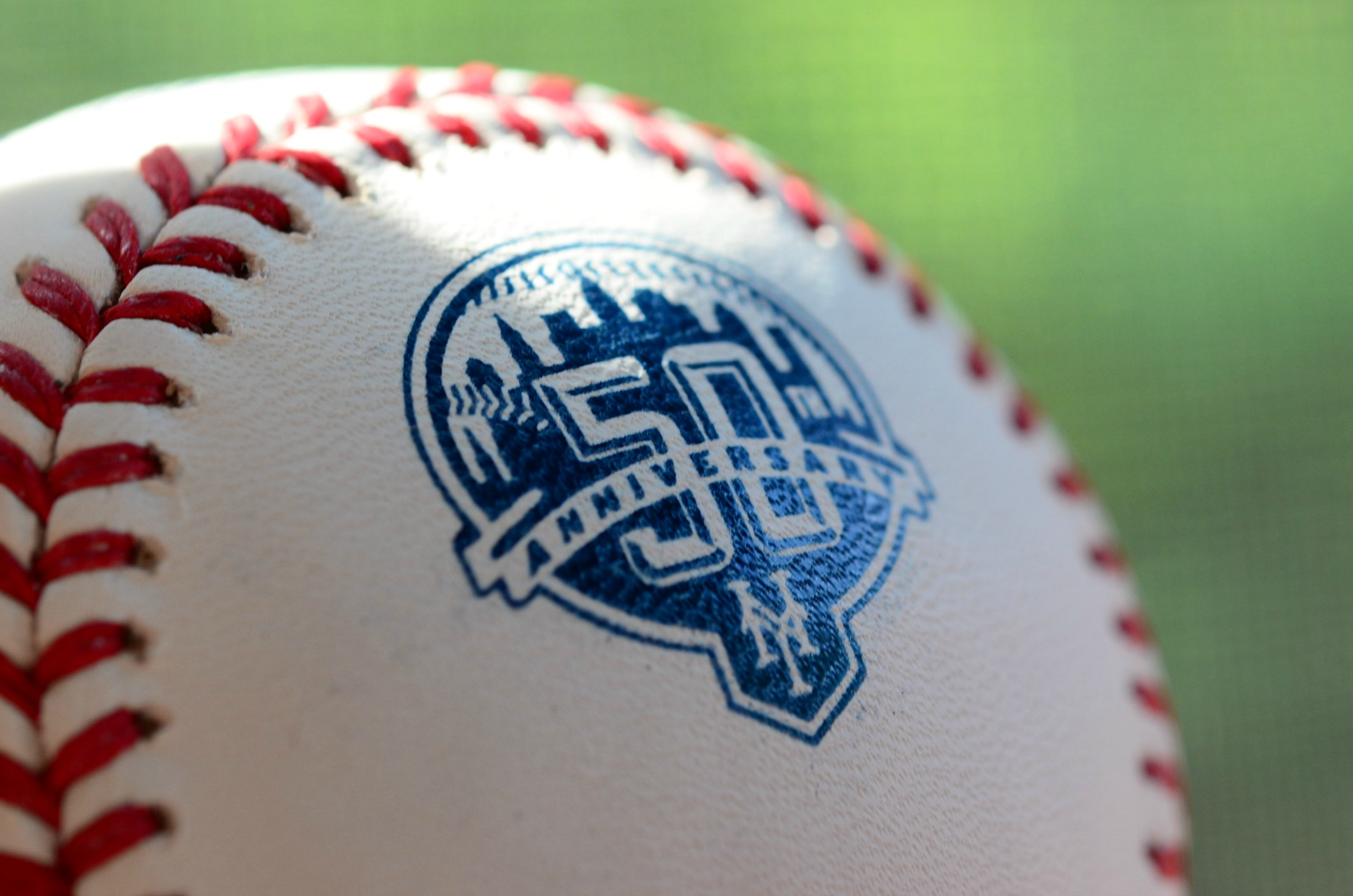 Close-up photograph of a baseball featuring a New York Mets 50th Anniversary logo